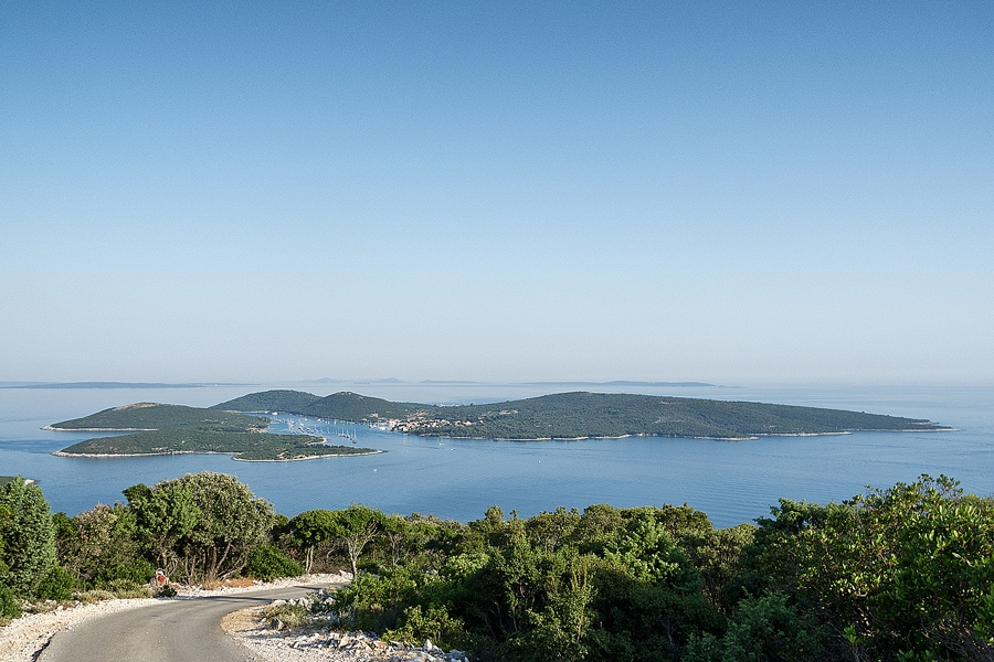 The islands of Ilovik (right) and Sveti Petar (left) seen from the island of Lošinj.